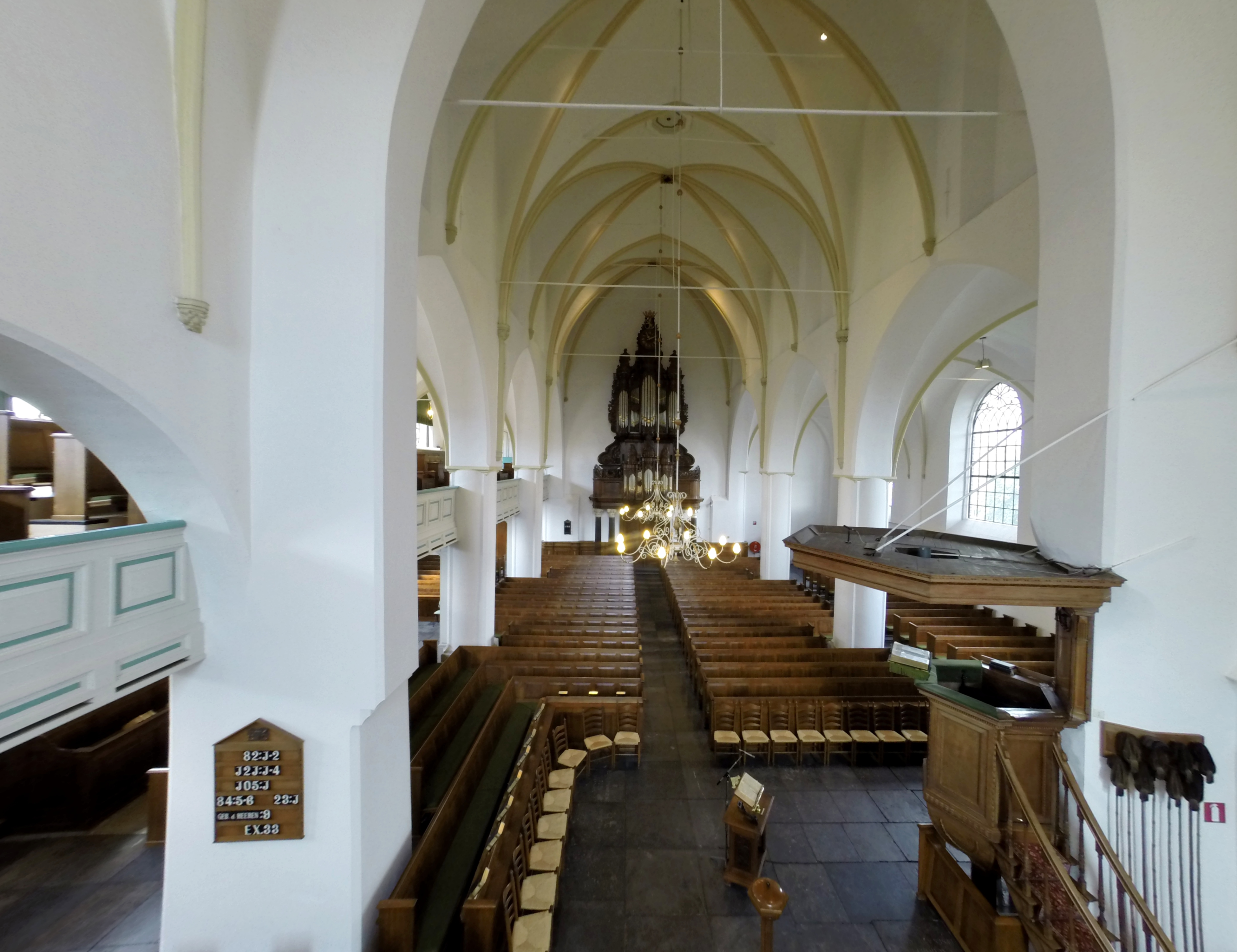 Picture of Grote Kerk Nijkerk